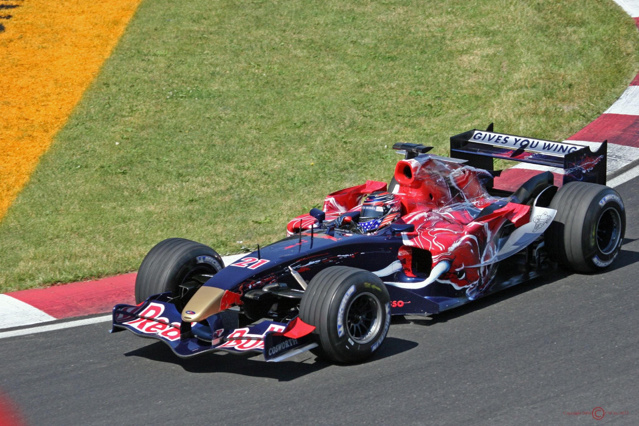 Scott Speed driving for Scuderia Toro Rosso at the 2006 Canadian Grand Prix.